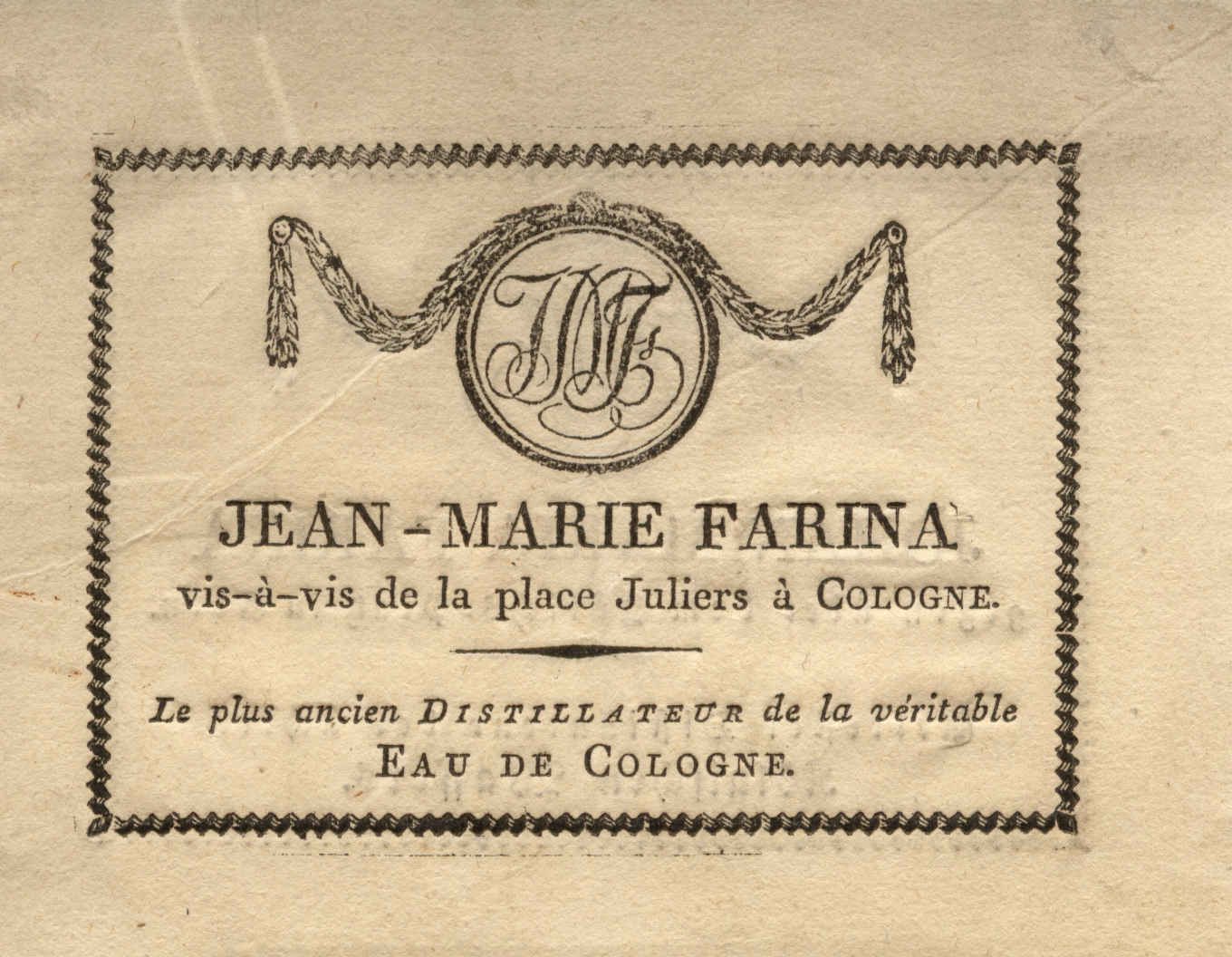 J.M.Farina Buisiness Card